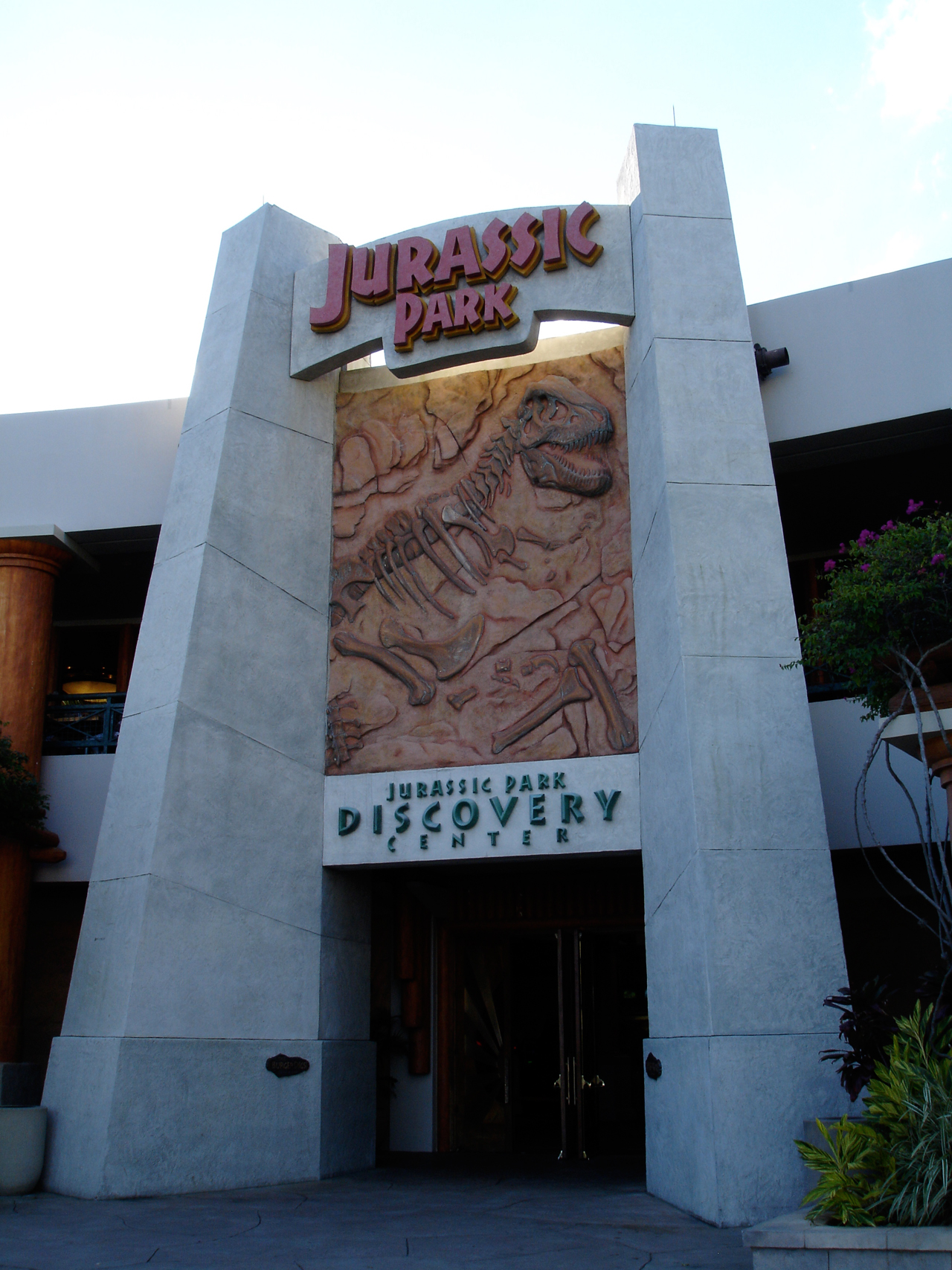 There are several Jurassic Park-themed attractions. This is the Discovery Center, a replicated version of the visitor center from the movie. It contains hands-on exhibits mainly for kids.